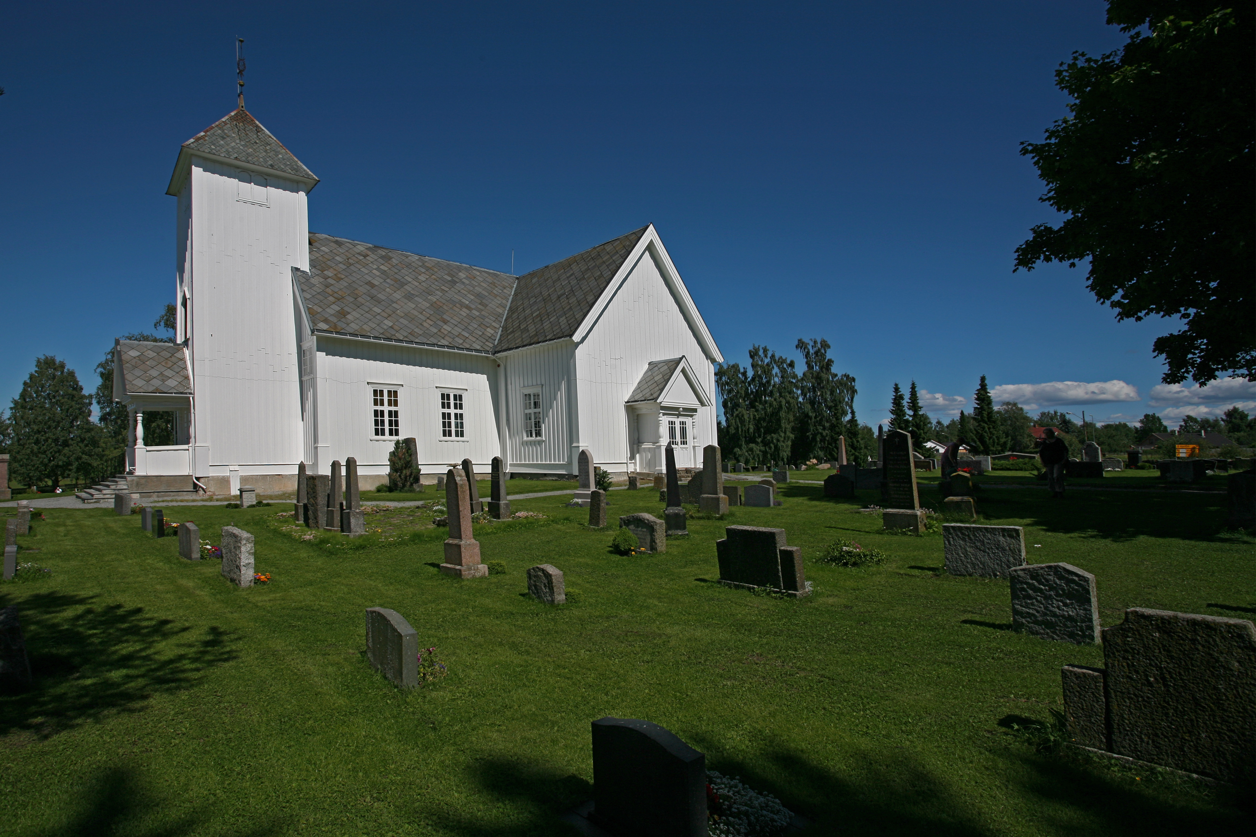 Picture of Ottestad church (Hedmark - Norway)